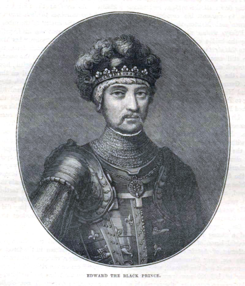 Edward the Black Prince